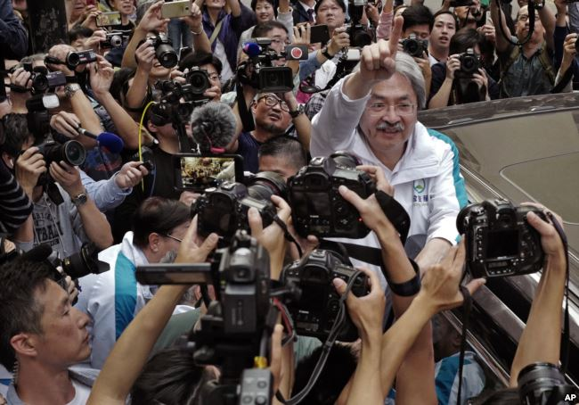 John Tsang Canvassing event